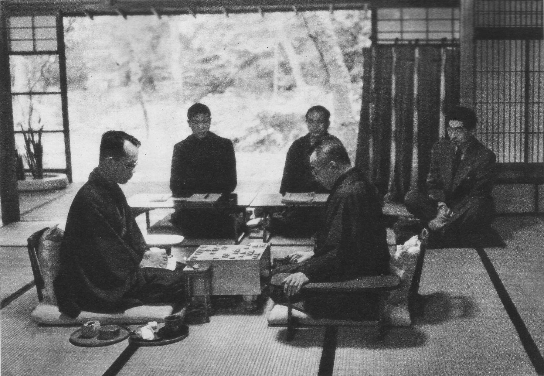 Late Yasuhito, Prince Chichibu Watches Shogi Contest, 1952.